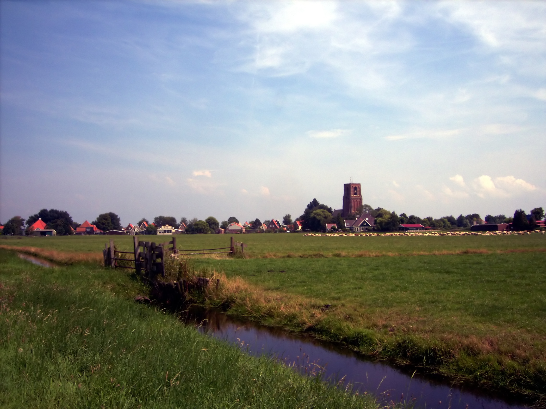 This is Ransdorp, part of Amsterdam Municipality.